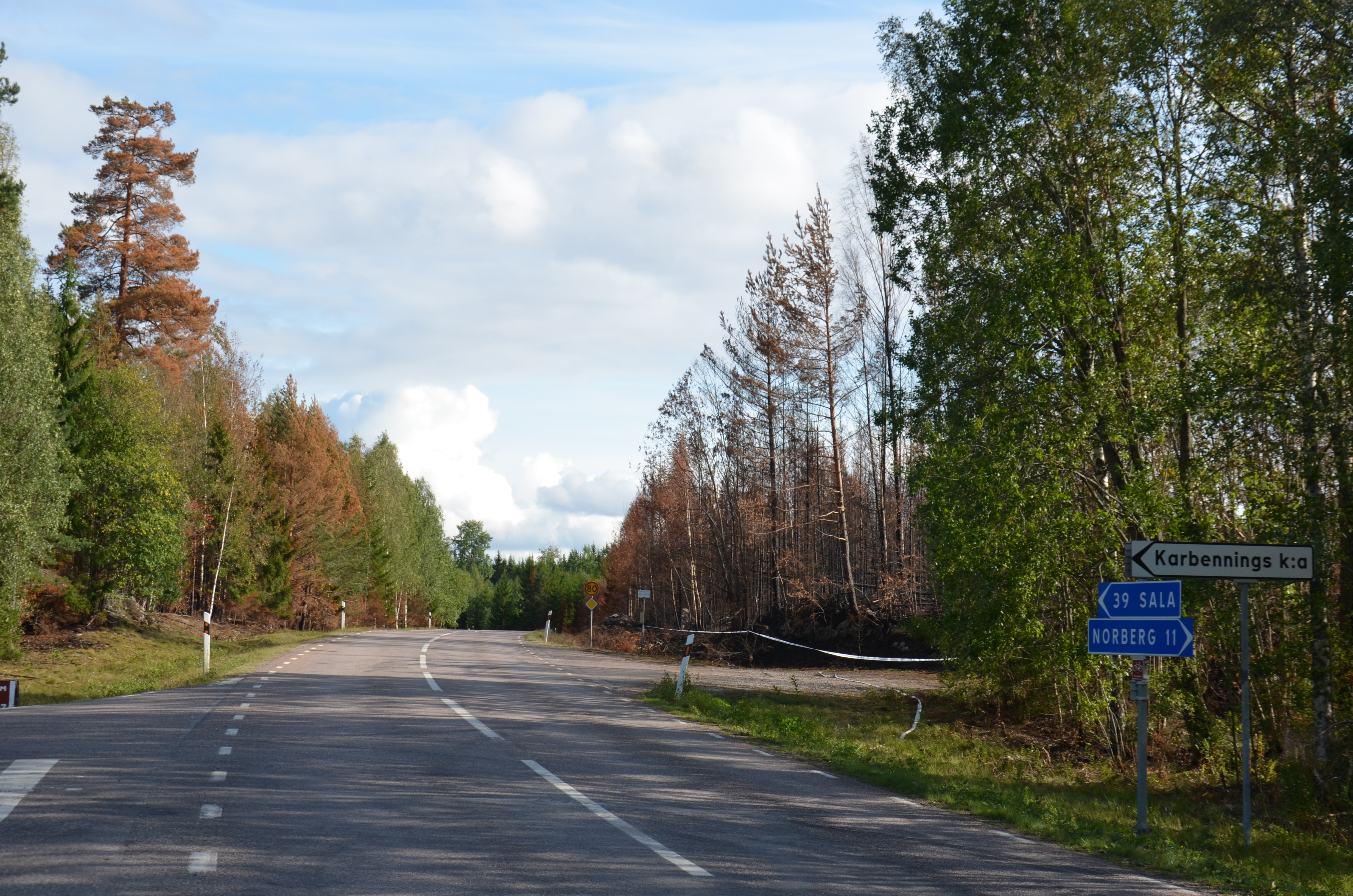 Fire struck forest from the 2014 Västmanland wildfire at road 256, Sweden